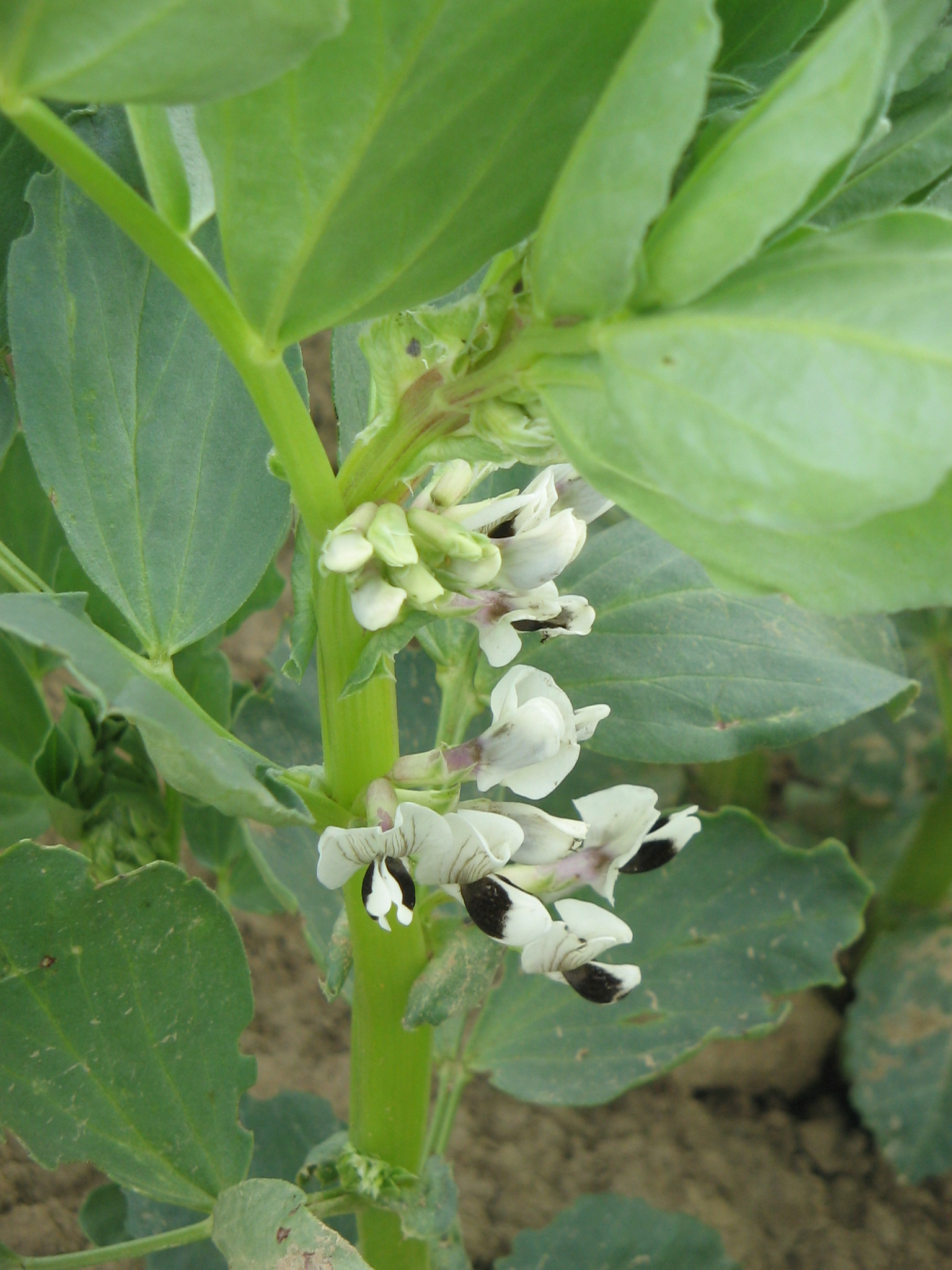 Vicia faba